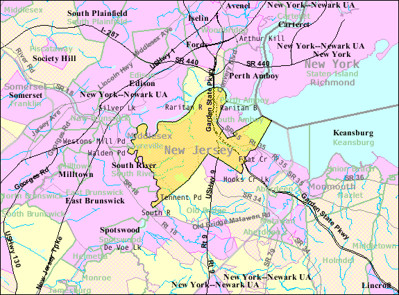 U.S. Census Bureau map of Sayreville